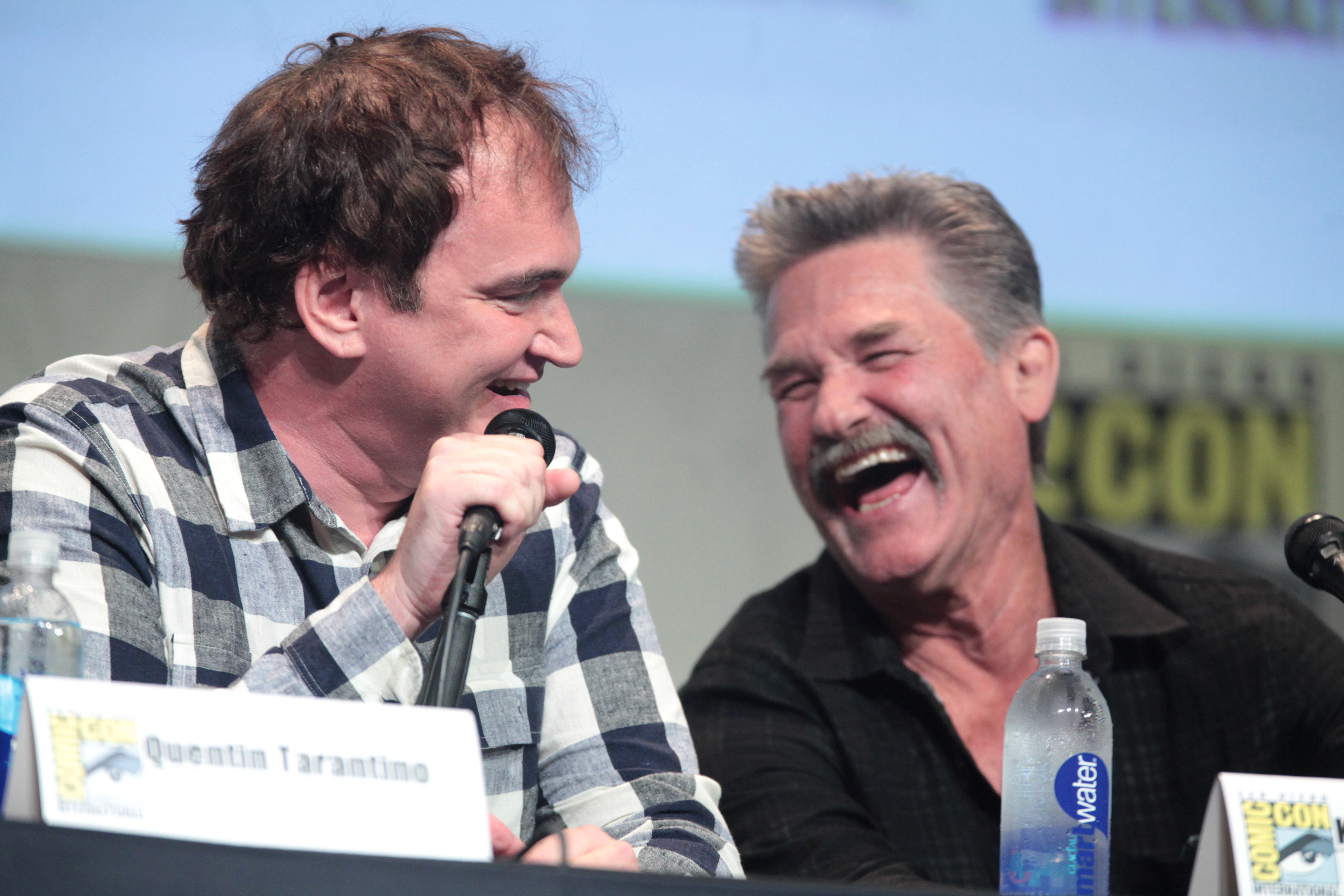 Quentin Tarantino and Kurt Russell speaking at the 2015 San Diego Comic Con International, for "The Hateful Eight", at the San Diego Convention Center in San Diego, California.